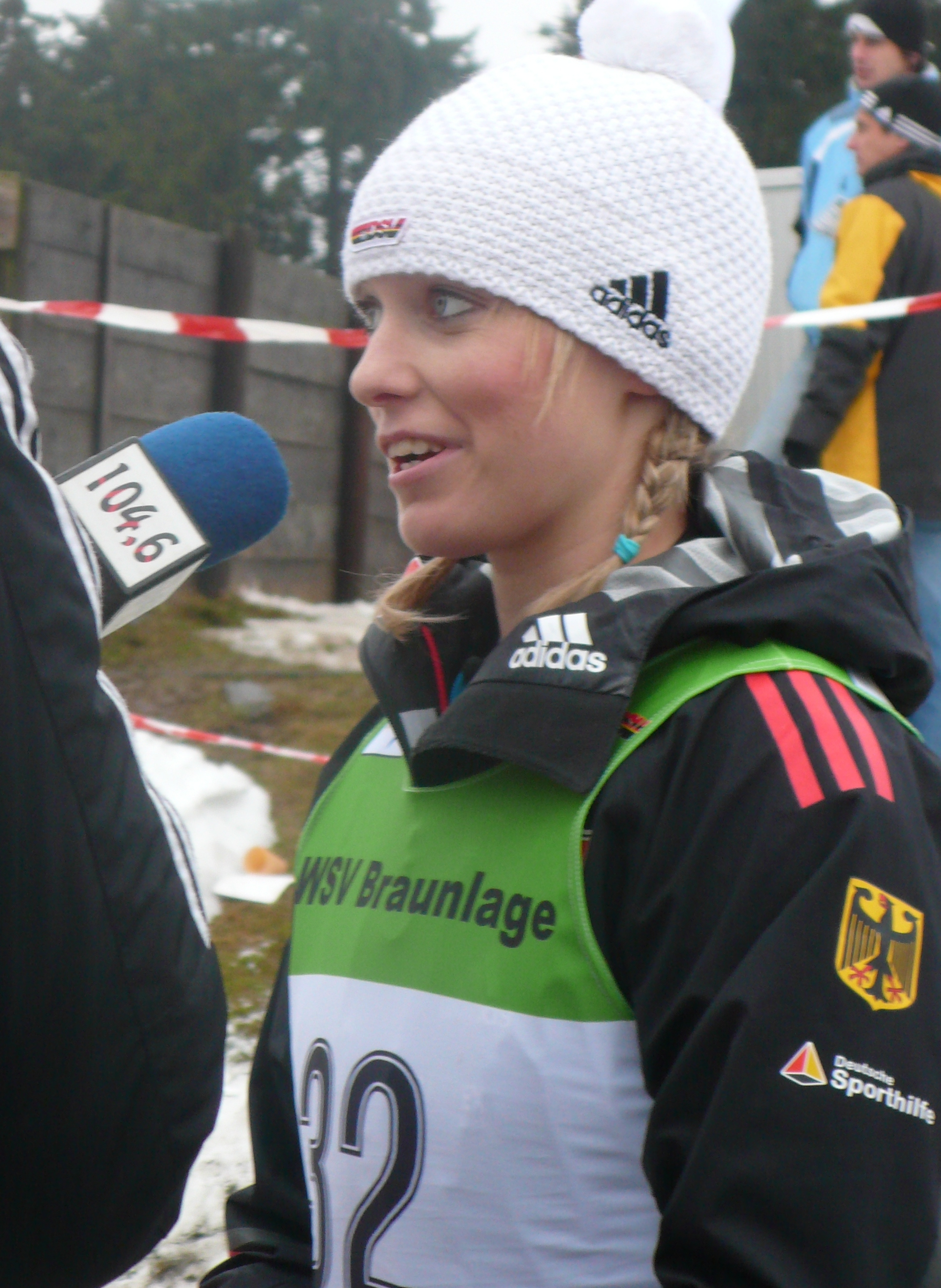 Melanie Faisst, Braunlage